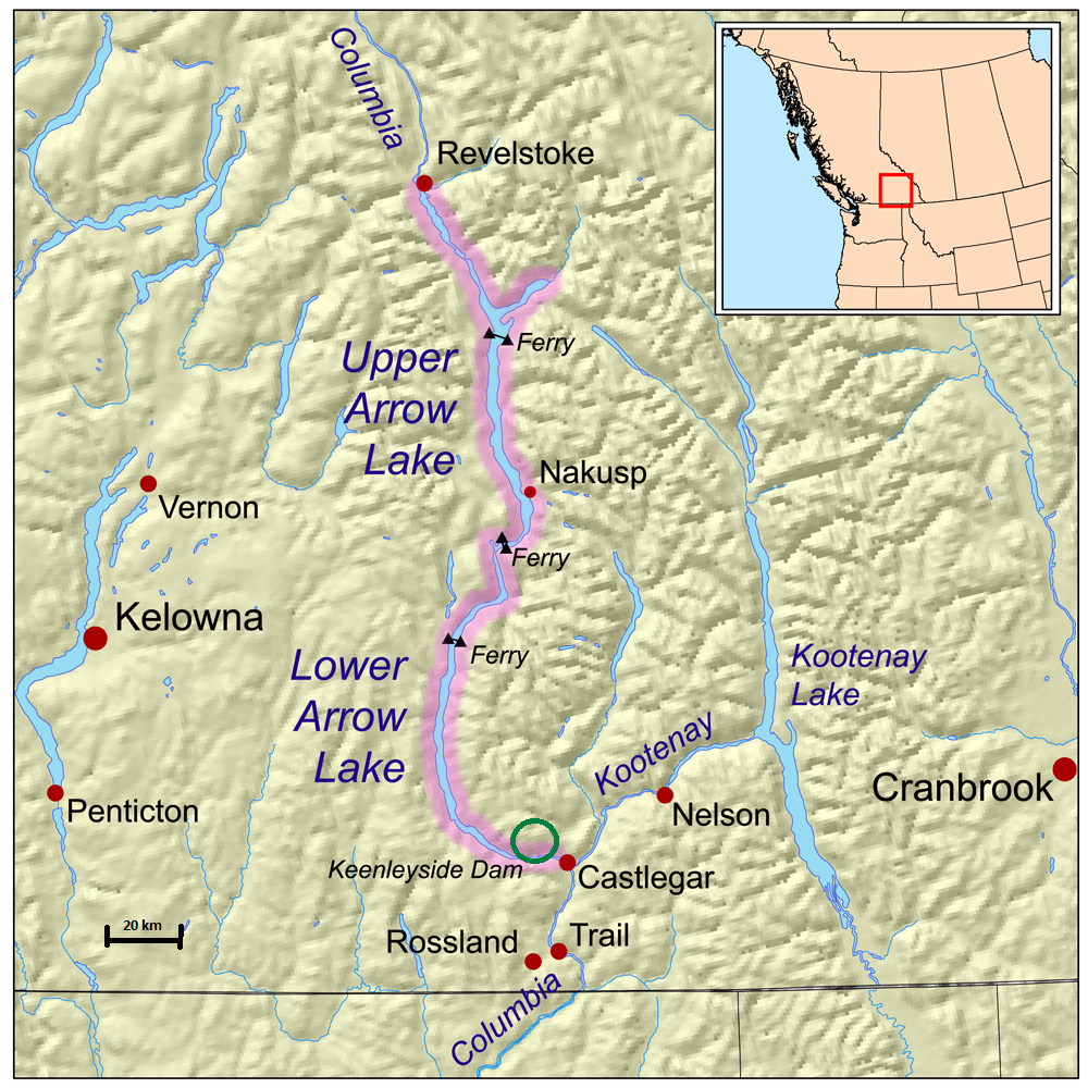 Syrinaga park is in the green circle.